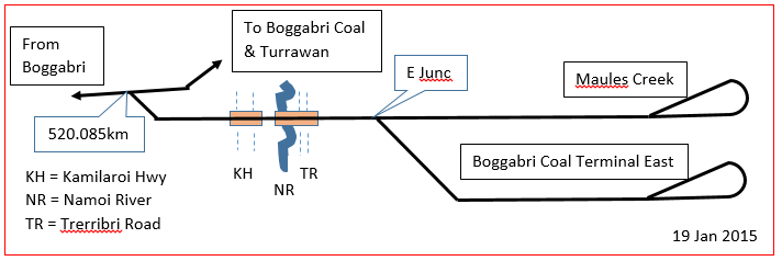 Railway Track Diagram Maules Creek & Boggabri Coal Terminal East